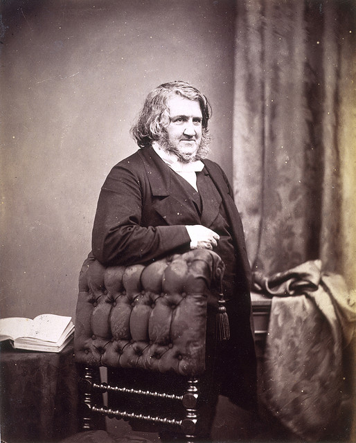 John Moffat about 1860 Accession no. PGP 188.1 Medium Albumen print from wet collodion negative in an album Size 23.90 x 18.80 cm Credit Purchased 1988 For more information please select here.